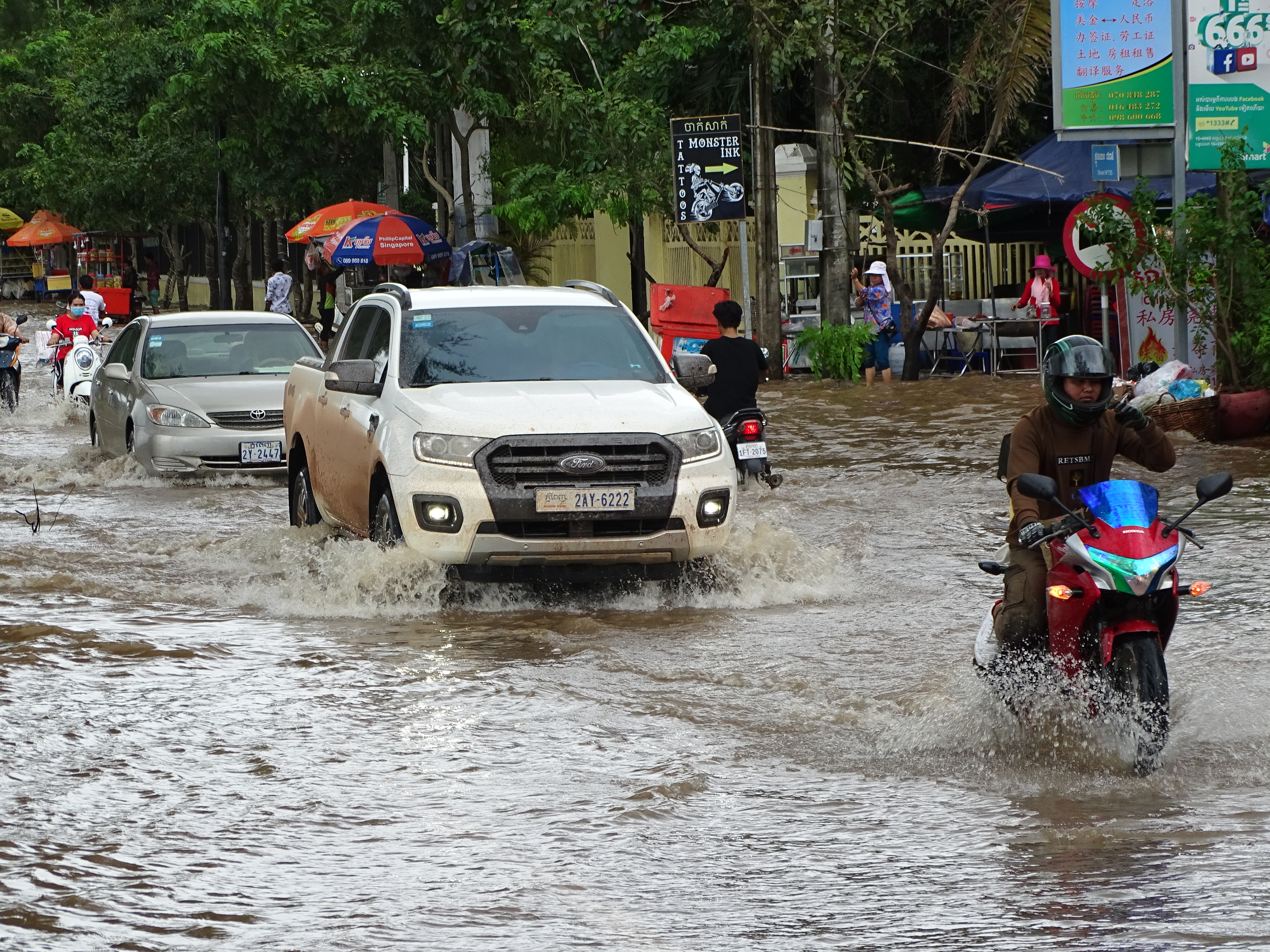 After the Flooding - Kampot - Cambodia - 03